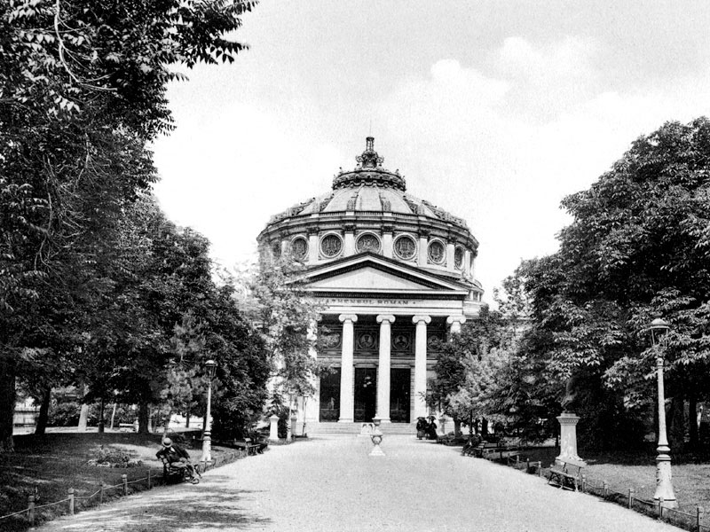 photograph of Bucharest The Atheneum